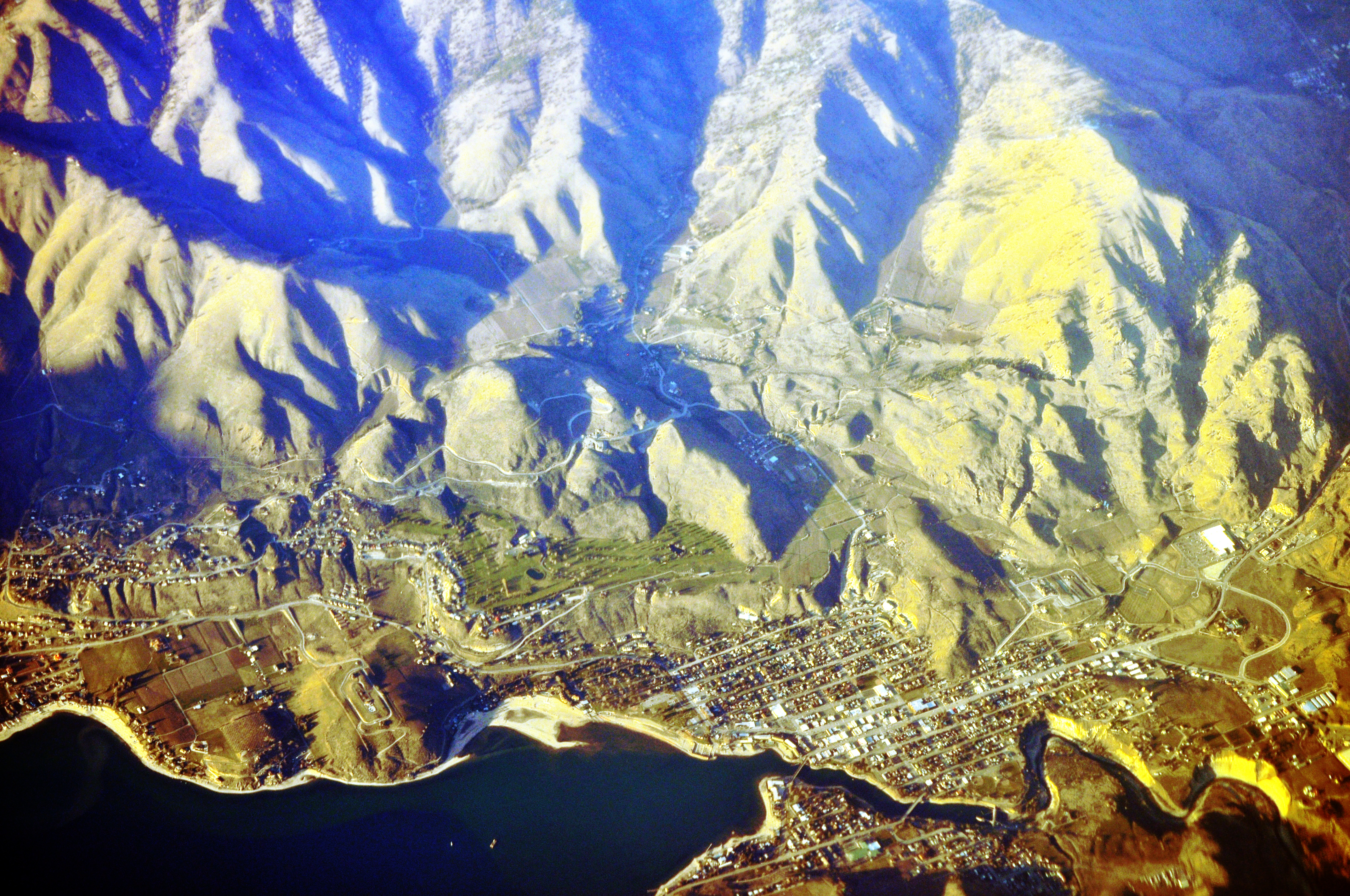 Aerial view of Chelan, Washington, USA and environs to the north.